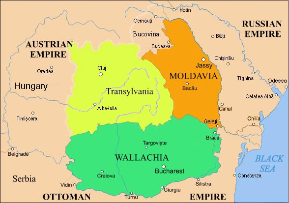 Romanian Principalities, 1848